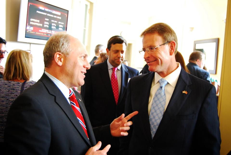 Grateful for conservative leaders like my friend and former colleague, Tony Perkins.